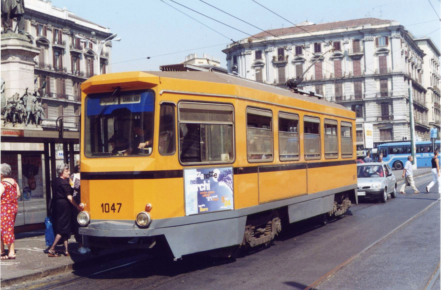 Napoli (Naples) tramcar 1047 southbound on Corso Garibaldi at Piazza Garibaldi in 2000